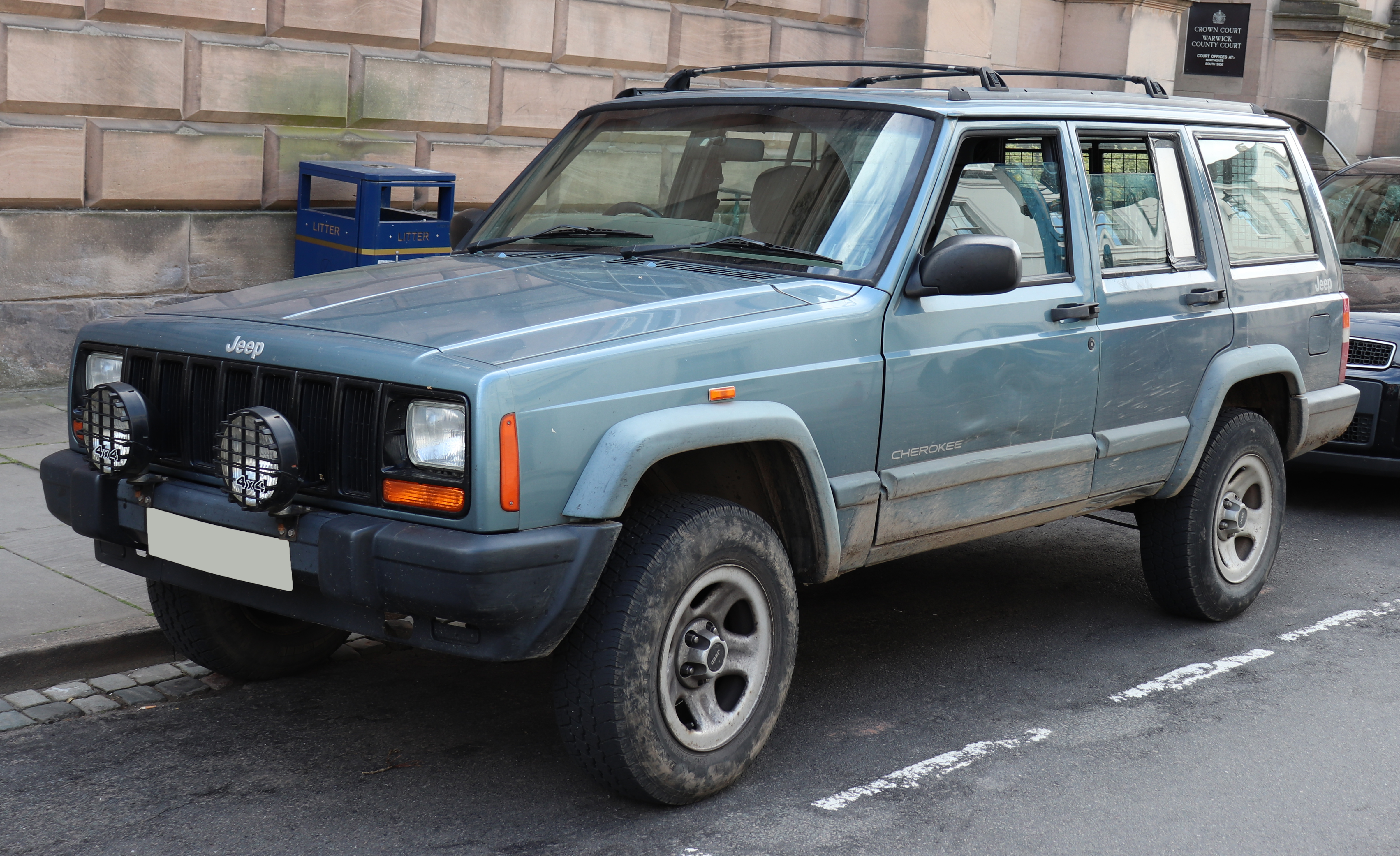 1997 Jeep Cherokee Sport 2.5 Front Taken in Warwick